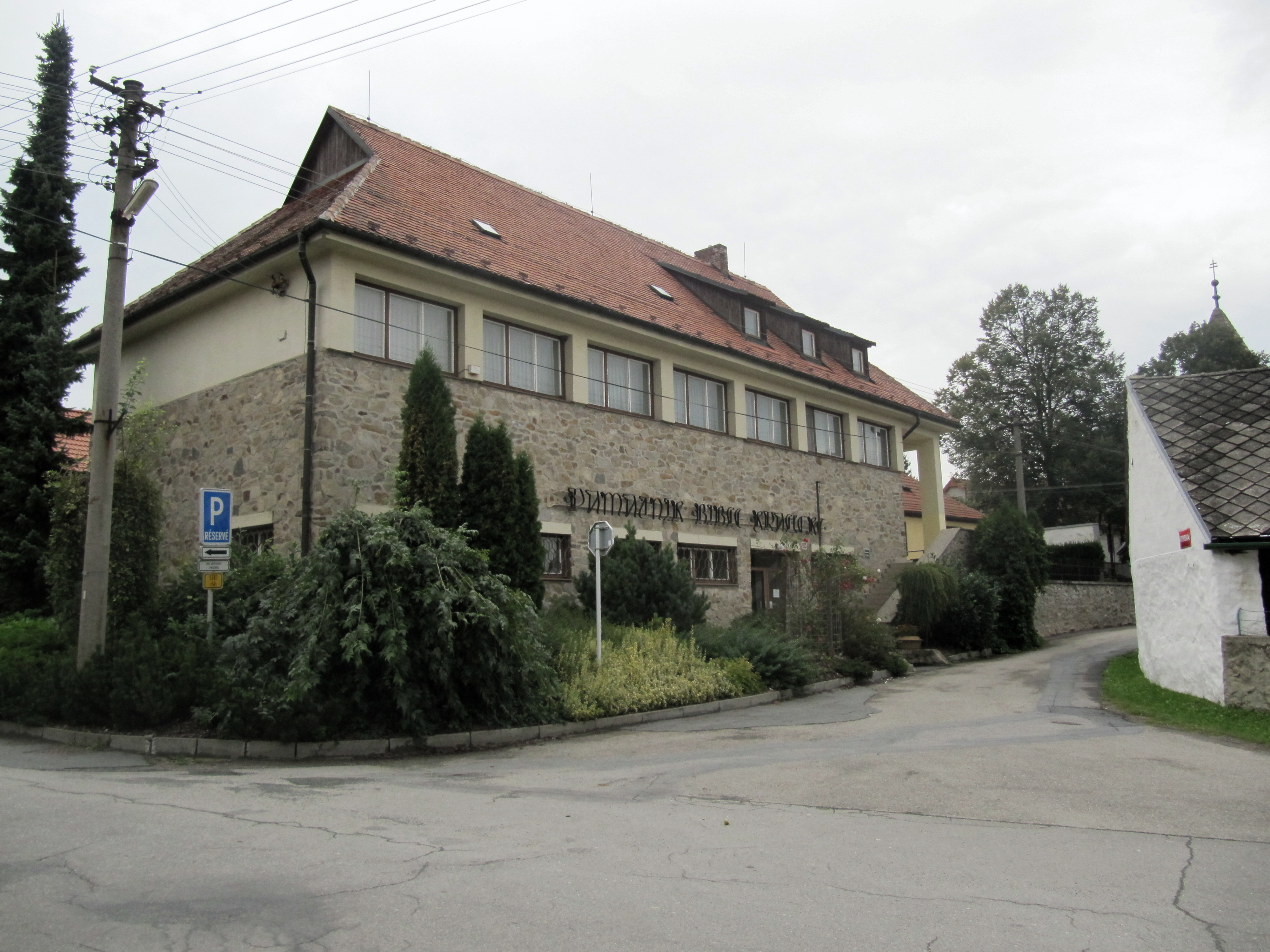 Kralice nad Oslavou in Třebíč District, Czech Republic.Museum of Bible of Kralice.